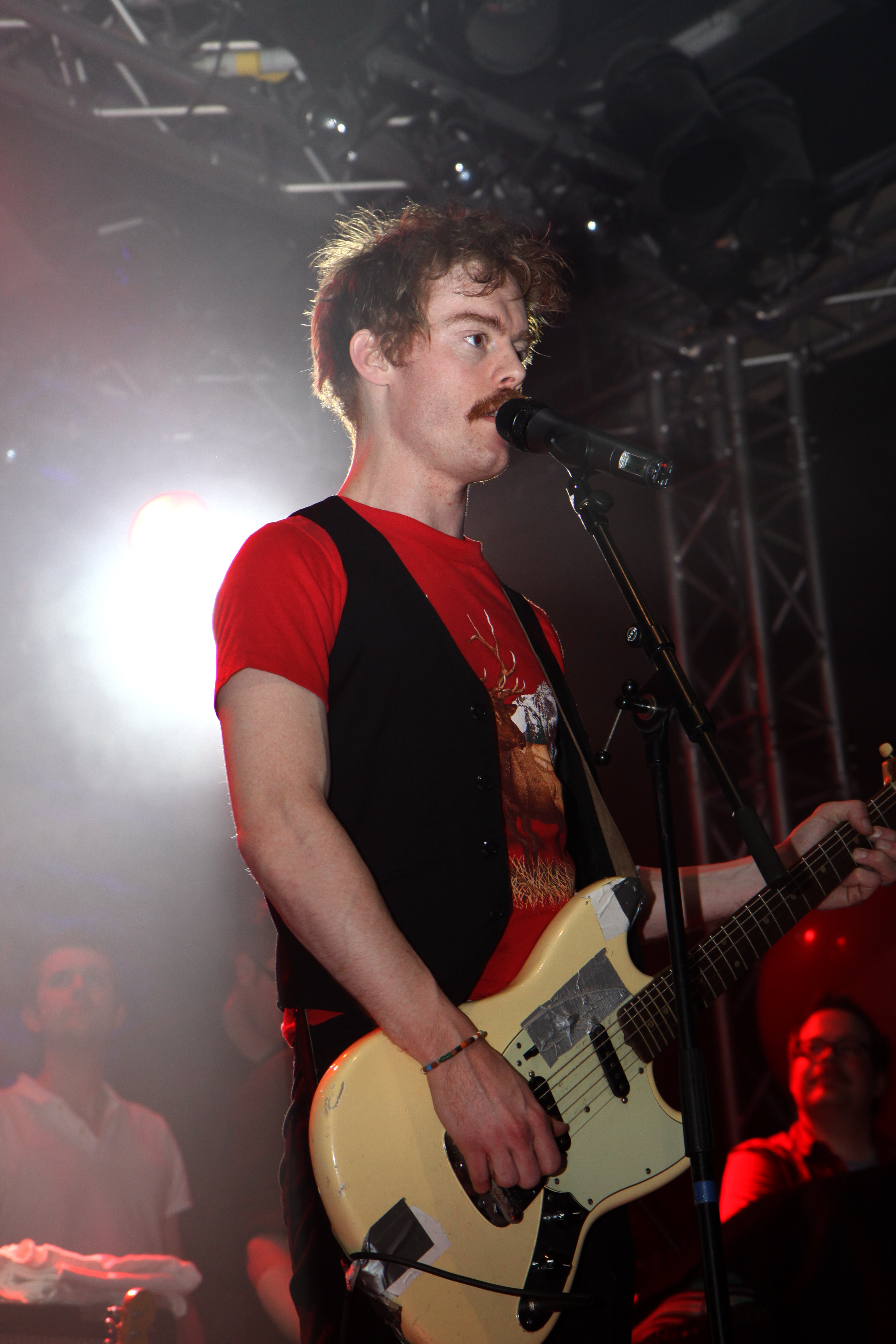 Emanuel Lundgren from the band "I'm from Barcelona" on stage at Sticky Fingers in Gothenburg, Sweden.